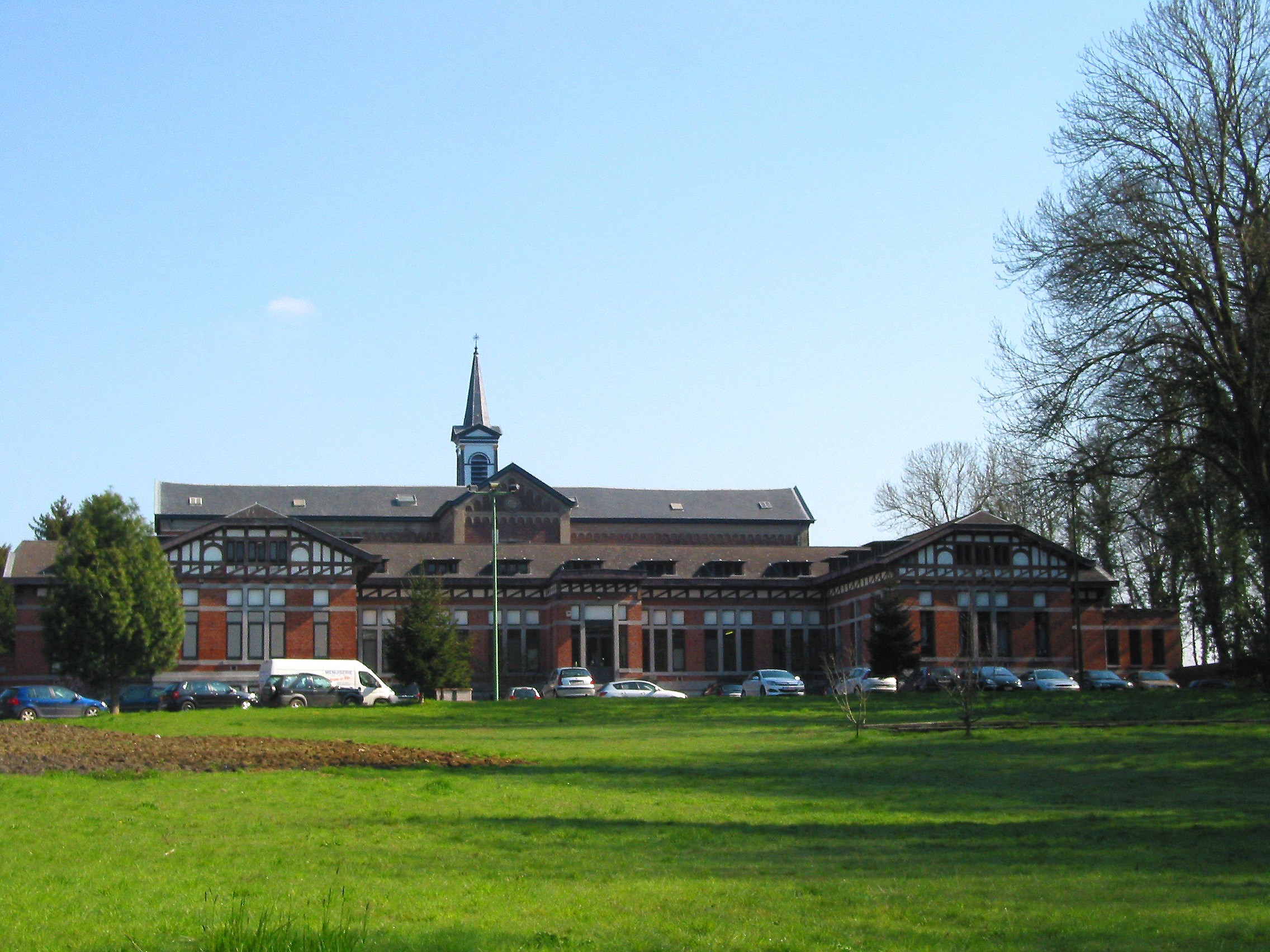 Houdeng-Aimeries (Belgium), the hospital (1909) in the Model village of «Bois-du-Luc» (1838-1853).